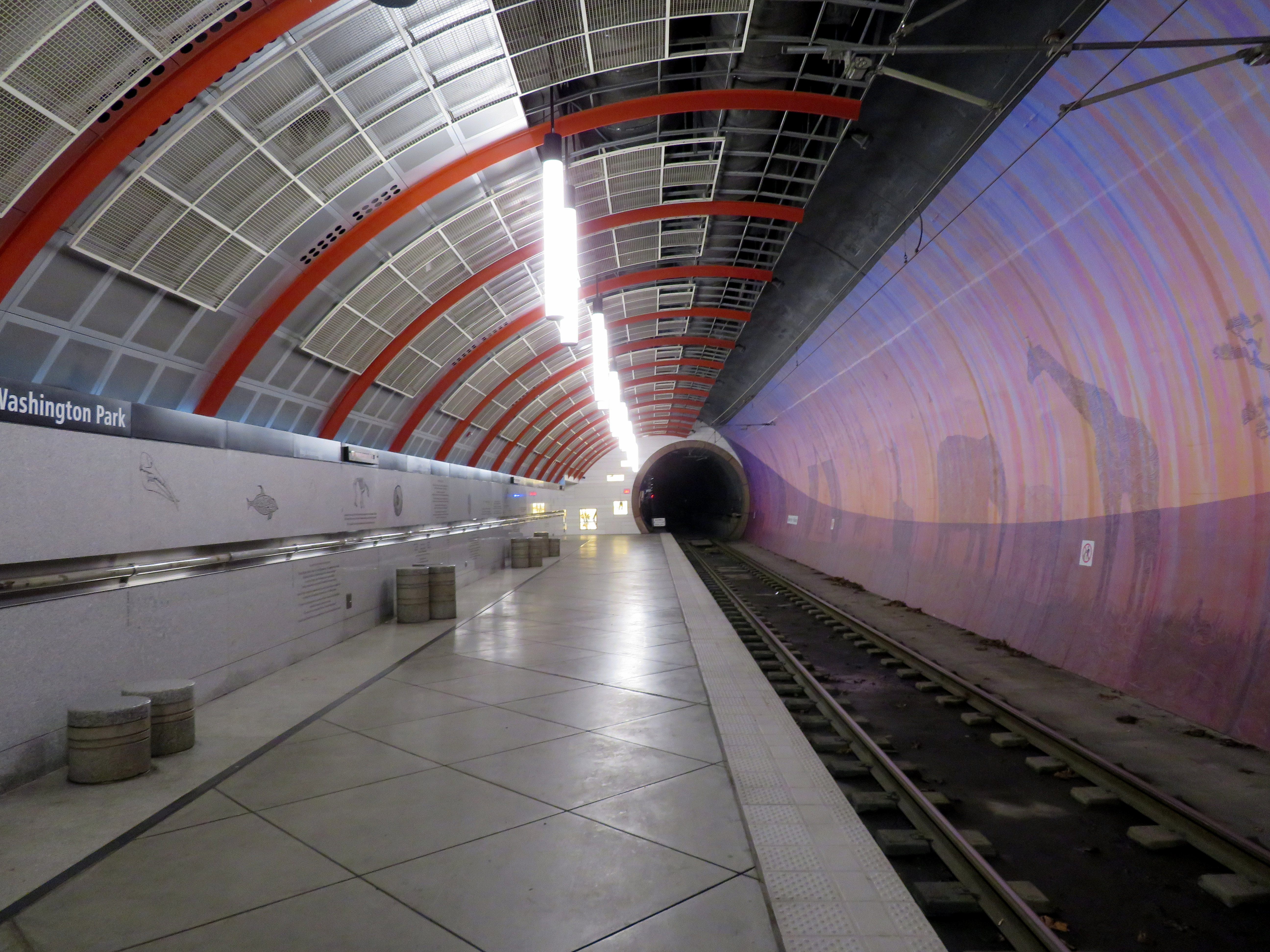 Westbound platform at Washington Park station in February 2018